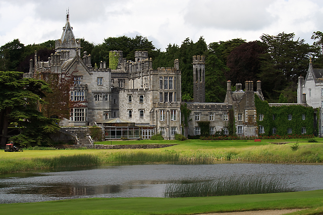 Adare Manor